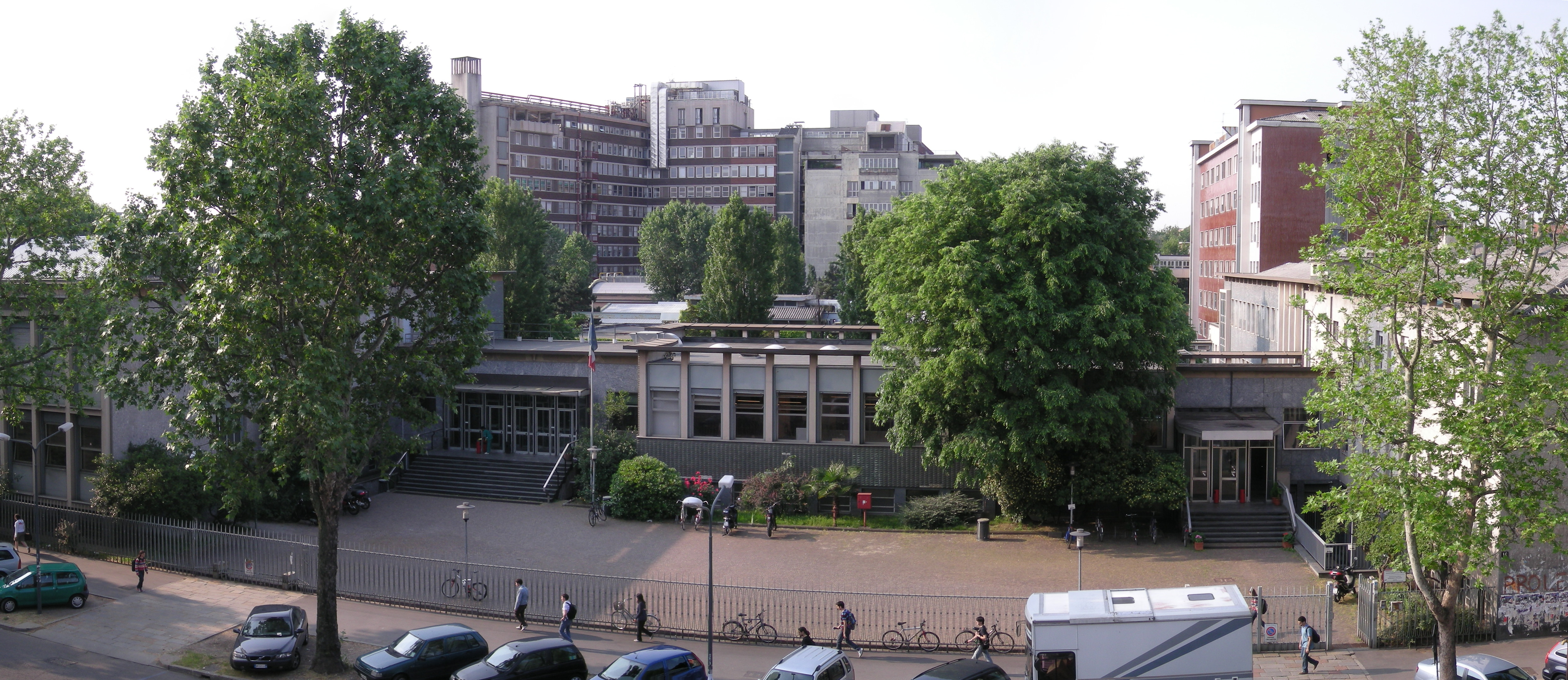 Physics Department, Università degli Studi di Milano, seen from across Via Celoria, from Istituto Neurologico Carlo Besta, second floor. The image is a collage of 5 pictures done with hugin, and finished with GIMP.